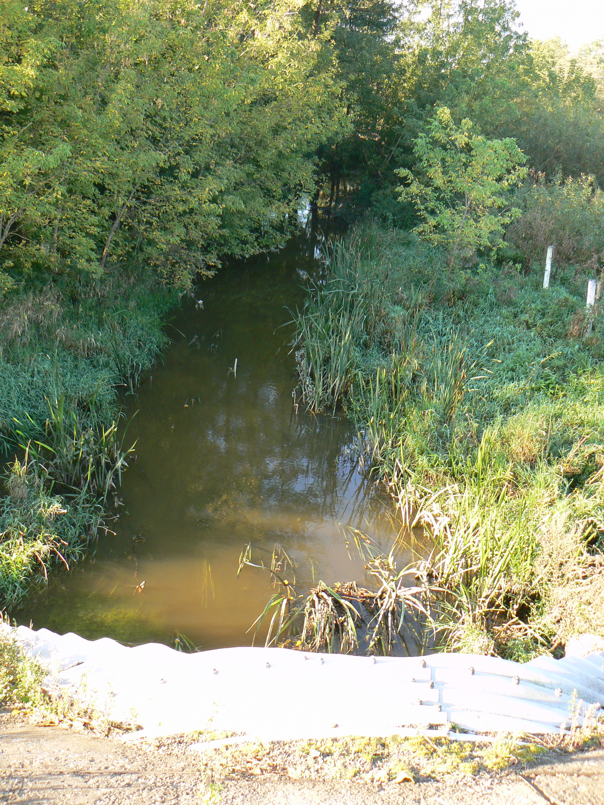 River Rausvė (tribut. of Šešupė) near Gižai